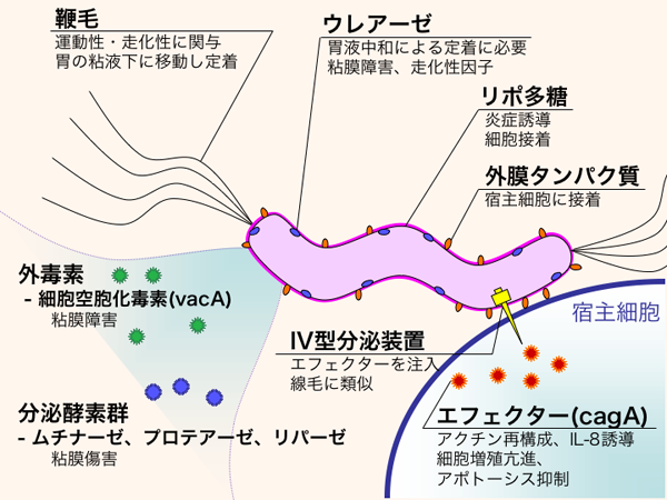 virulence factors of Helicobacter pylori, with Japanese annotation.